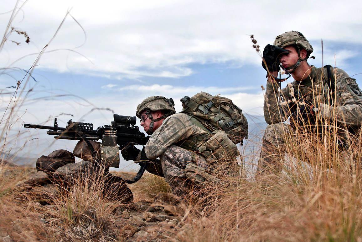 U.S. Army Spc. Joshua D. Heinbuch (left) and Spc. James M. Piccolo (right) secure the area after finding an improvised explosive device on a road in the Shalay Valley in eastern Kunar province, Afghanistan, on Nov. 4, 2010. Heinbuch and Piccolo are assigned to the 101st Airborne Division's Company C, 2nd Battalion, 327th Infantry Regiment.